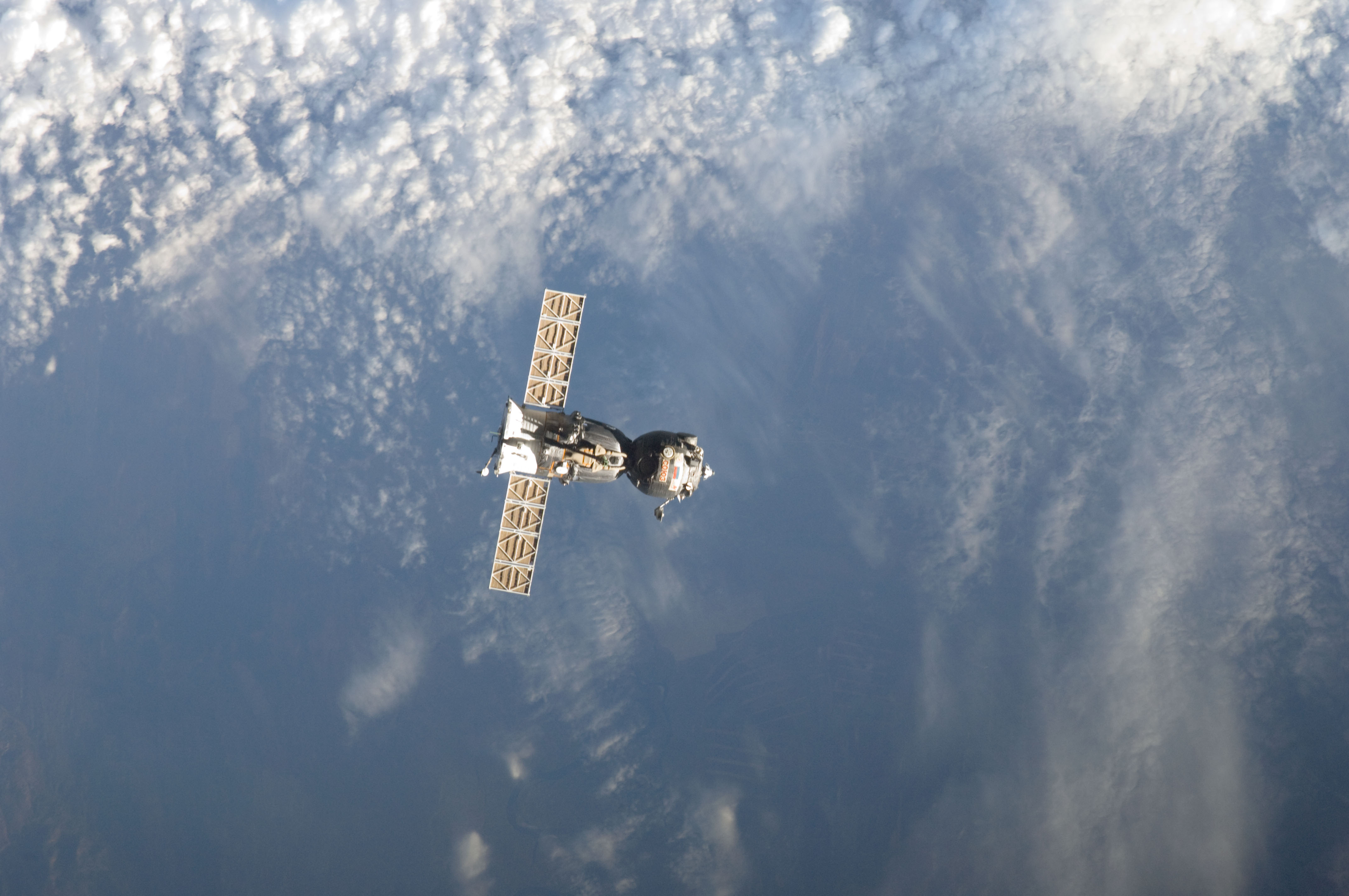 The Soyuz TMA-04M spacecraft departs from the International Space Station and heads toward a landing in a remote area outside of the town of Arkalyk, Kazakhstan, on Sept. 17, 2012 (Kazakhstan time). Expedition 32 Commander Gennady Padalka of Russia, NASA Flight Engineer Joe Acaba and Russian Flight Engineer Sergei Revin are returning from five months onboard the International Space Station where they served as members of the Expedition 31 and 32 crews.